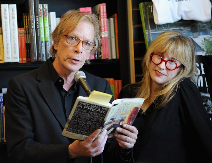 Legs McNeil and Gillian McCain doing a book reading at Book Soup in Los Angeles on July 26, 2014.